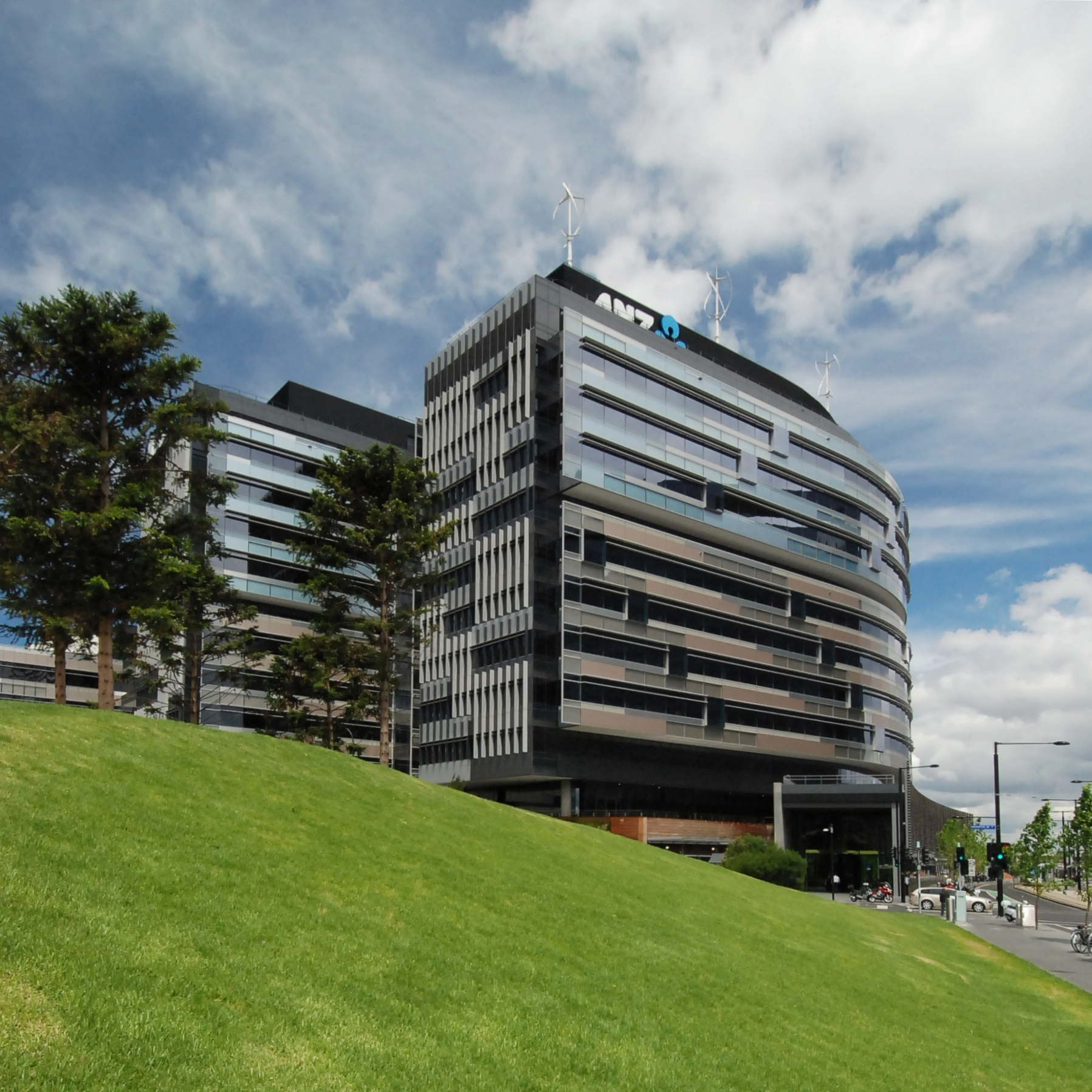 ANZ Bank Headquarters, Docklands, Melbourne, Australia. Designed by HASSELL (2009).